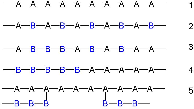 Copolymers